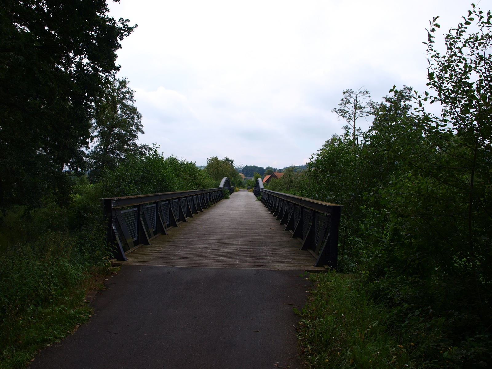 Bicycle route on the former railway line Bad Salzschlirf-Niederjossa, bridge over the Schlitz river at Bernshausen